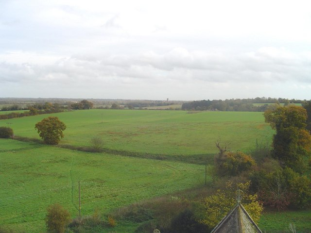 Beccles tower from Barsham church tower